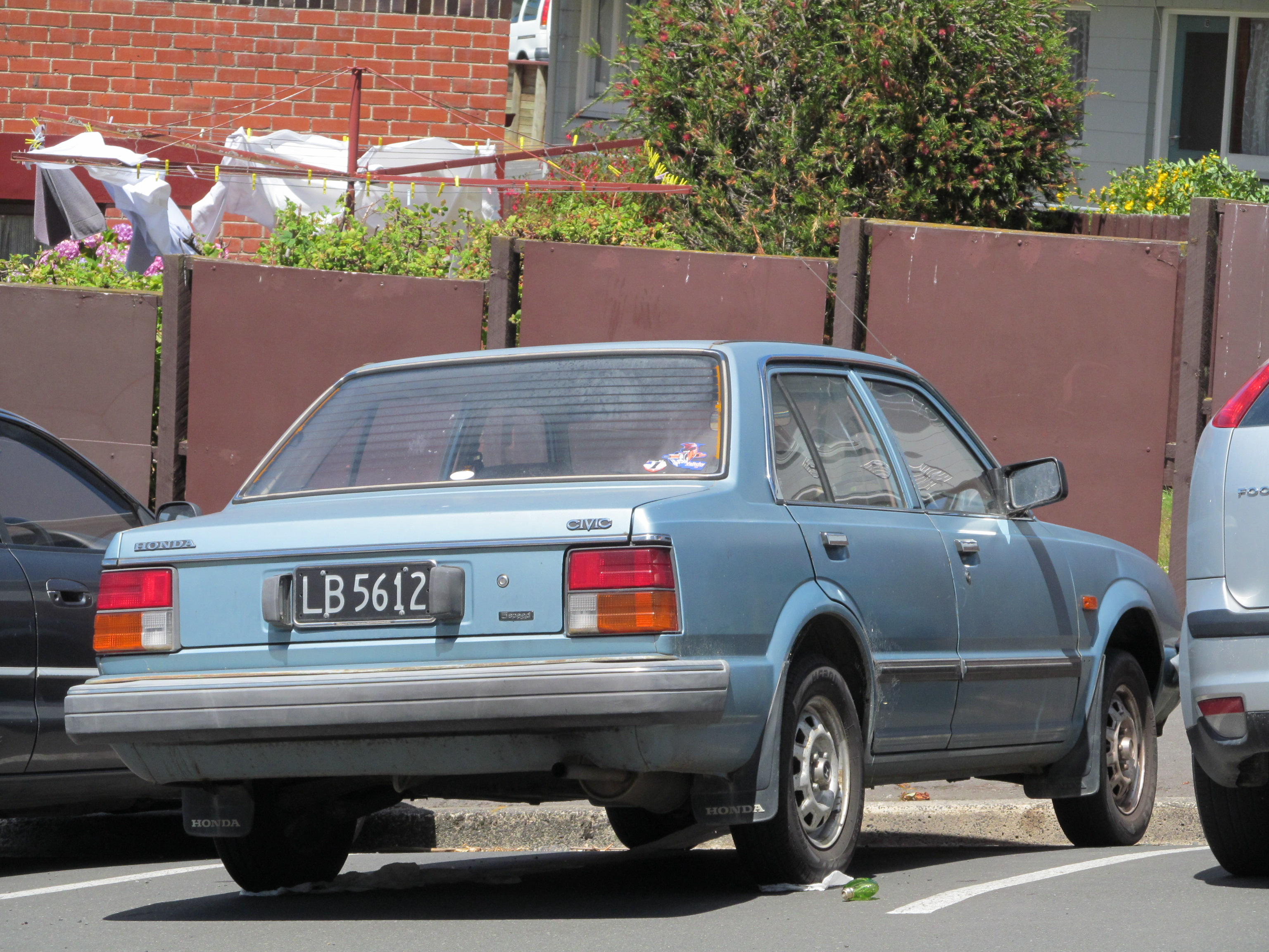 1983 Honda Civic Saloon photographed in Dunedin, New Zealand.